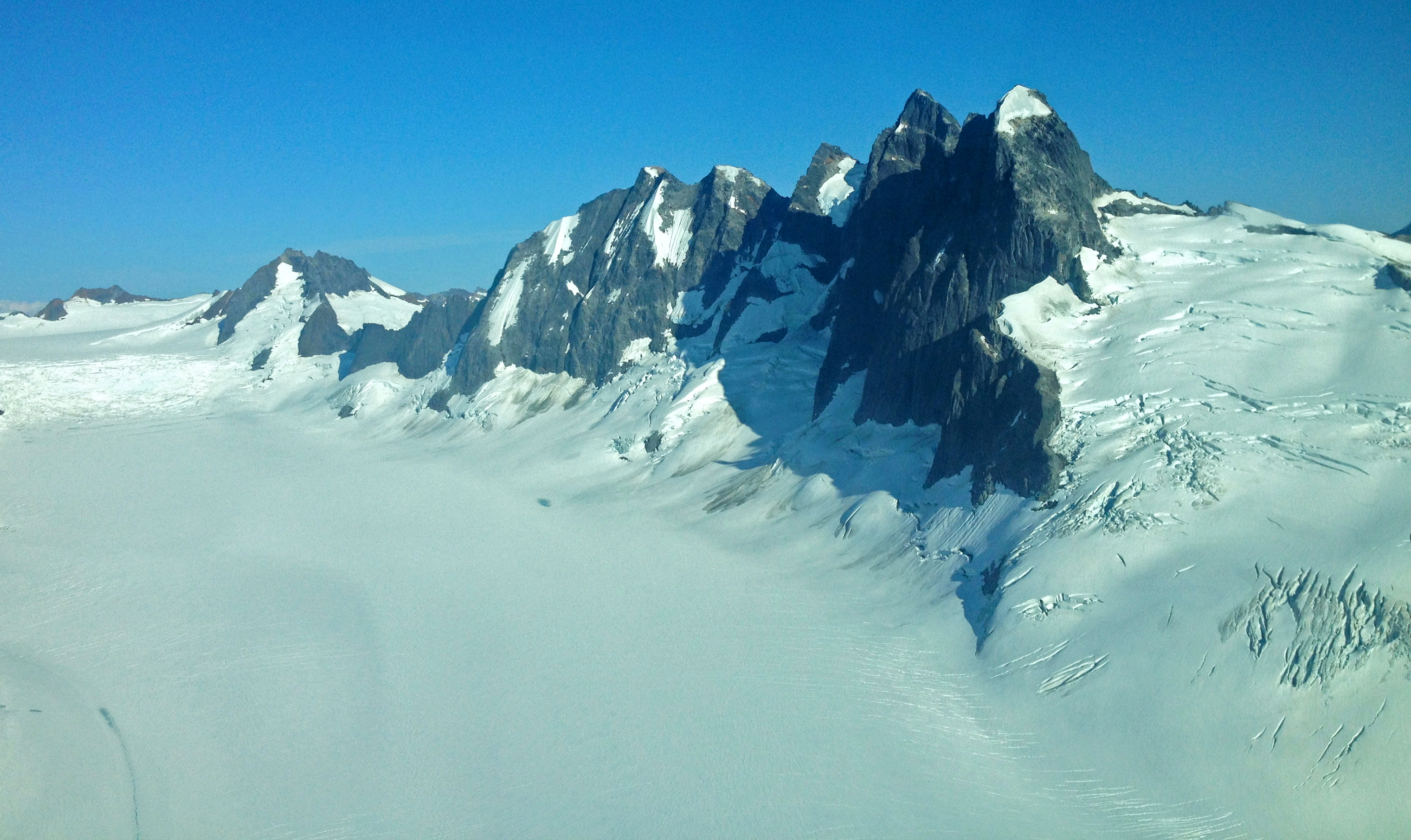 Aerial of Mendenhall Towers in Alaska